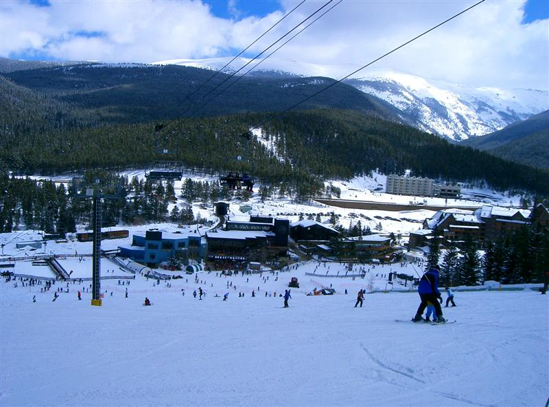 March 26, 2006 Winter Park Village